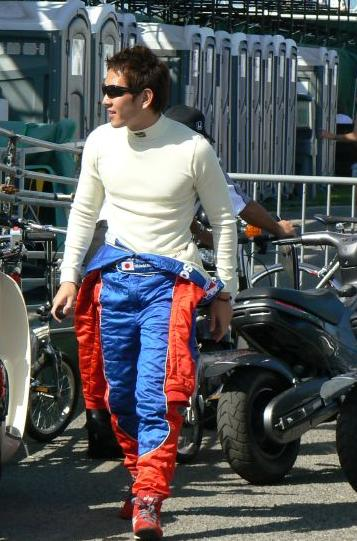 Hideki Mutoh at the Honda Grand Prix of St. Petersburg in 2008.